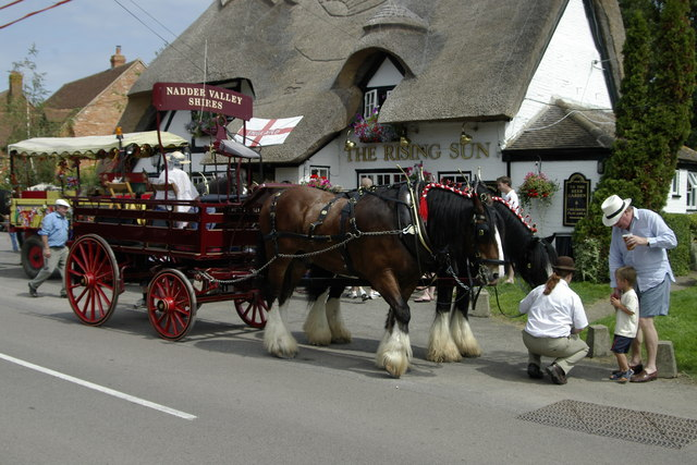 Rising Sun PH, Ickford. This 15th century pub was badly damaged by fire in January 2006 and as a listed building will be restored during 2006/2007. This photograph was taken as the annual Bucks Shire Horse parade stopped for refreshment.